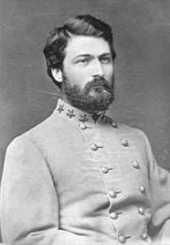 George Washington Custis Lee, son of Robert E. Lee, and Confederate General. NPS Image